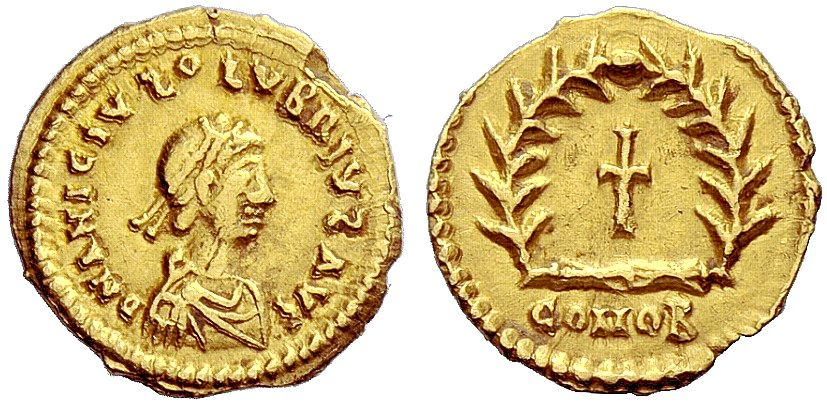 Olybrius, March (?) – 23 October 472, Tremissis, Mediolanum, AV 1.44 g. D N ANICIVS (S reverted) OLVBRIVS (S reverted) AVG Pearl-diademed, draped and cuirassed bust right. Rev. Cross within wreath; in exergue, COMOB. C 5. Ulrich-Bansa pl. XIII, 147 (these dies). Lacam 37 (these dies). LRC–. Depeyrot 33/1. RIC 3004.